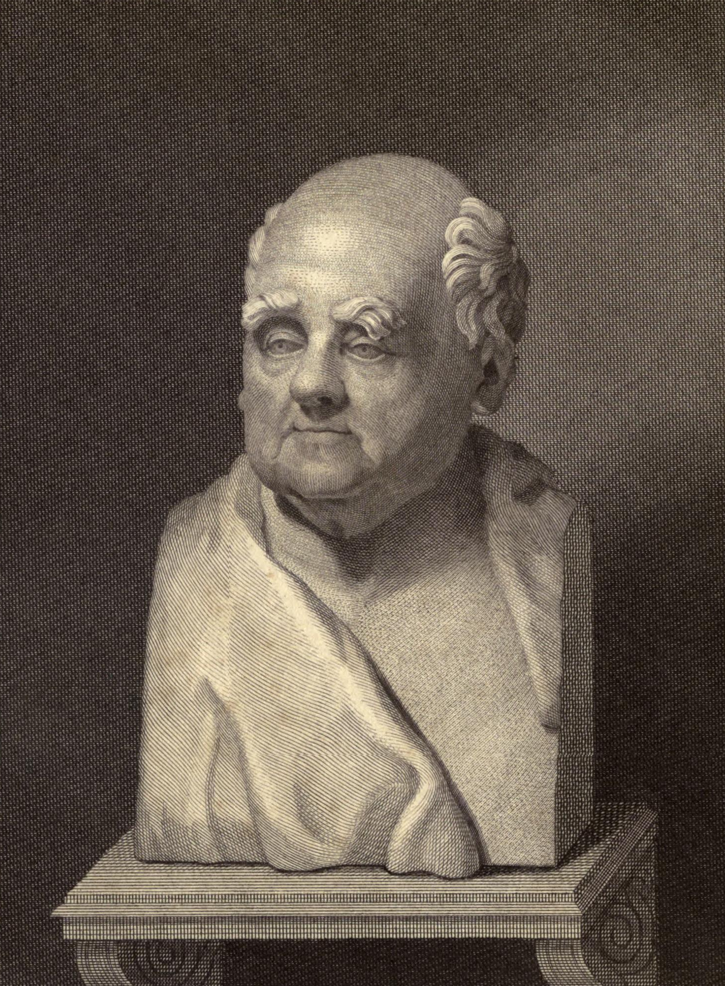 A bust of Samuel Parr (1747-1825) by George Clarke (1796–1842). Statues matching description first exhibited 1821. [1]